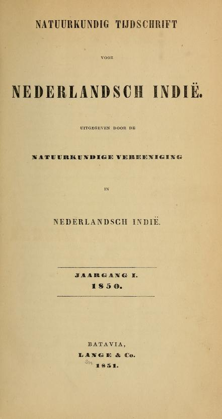 Natuurkundig Tijdschrift voor Nederlandsch Indië - Year 1850